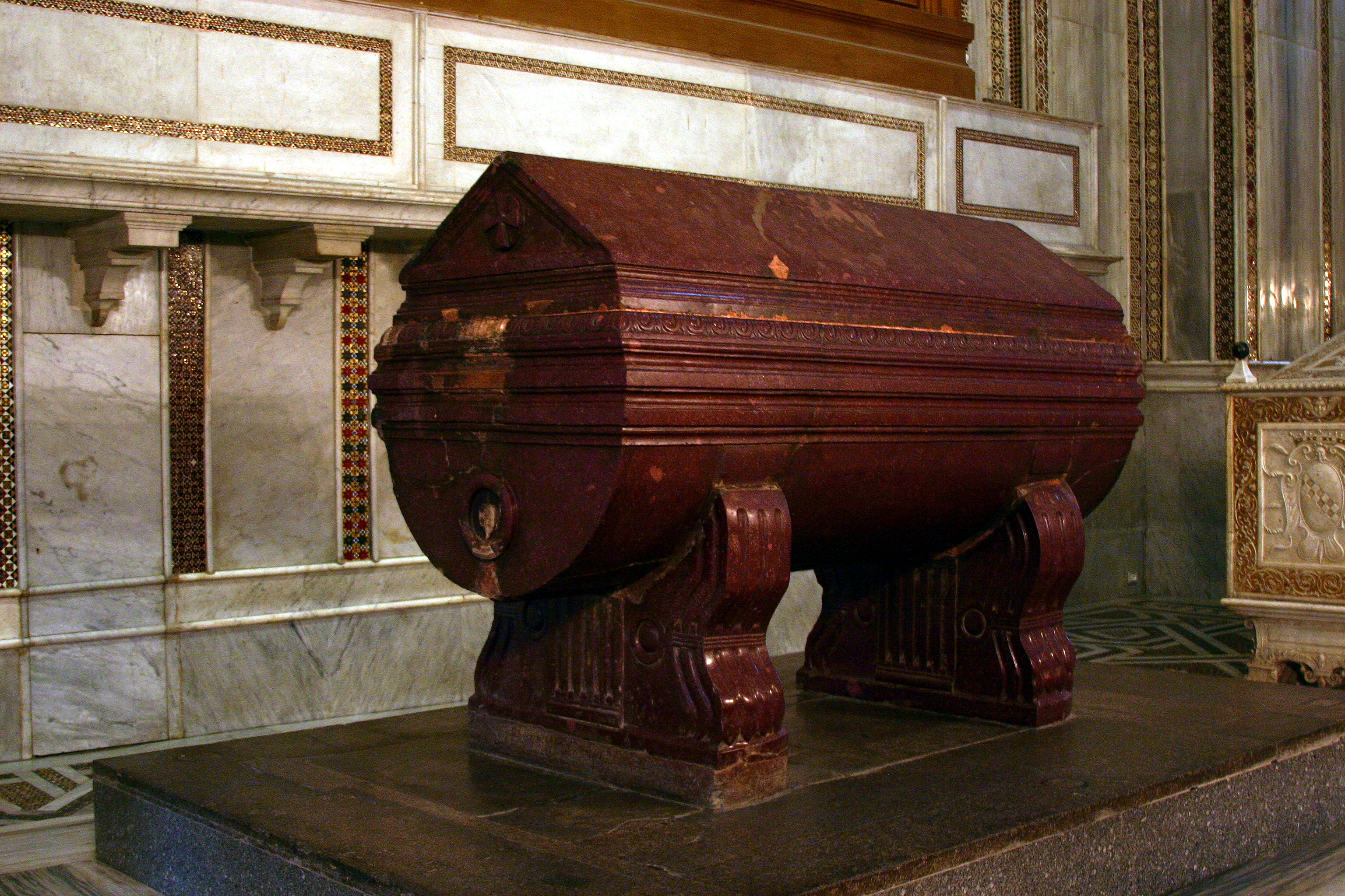 Tomb of William I of Sicily, Cathedral of Monreale